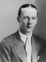 FBI profile photo of Special Agent Herman Hollis.